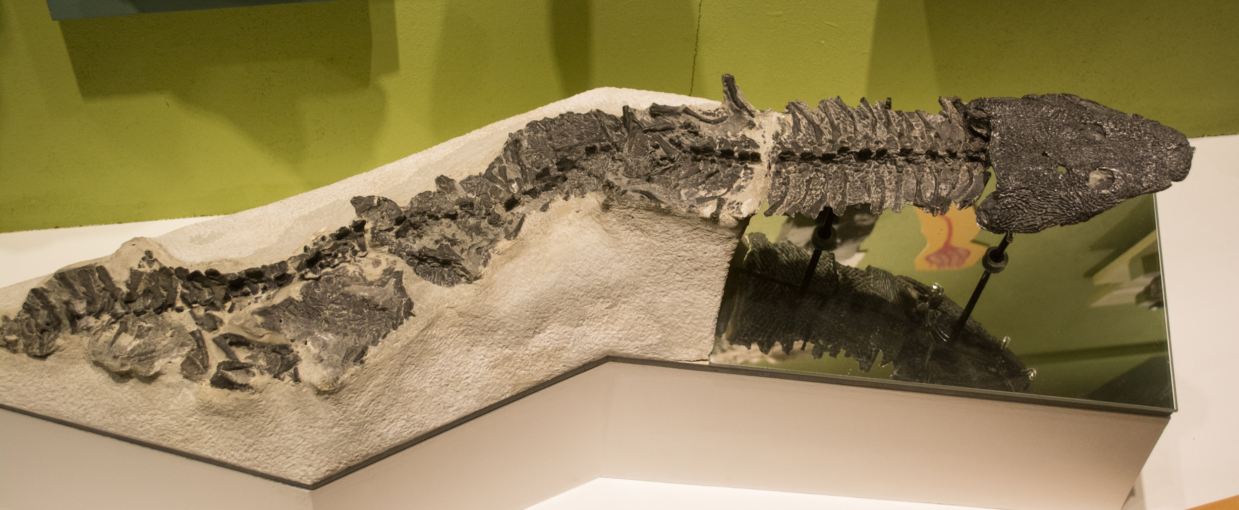 greererpeton burkemorani 01 - Cleveland Museum of Natural History - 2014-12-26 Greererpeton burckemorani is an extinct amphibian that lived about 335 to 331 million years ago. It's a tetrapod, a four-limbed animal. Fishes were the first animals to evolve on Earth, and the lobe-finned fishes evolved into tetrapods. Tetrapods today involve everything from birds to dogs to frogs to lizards. Even human beings. This fossil was the first ever unearthed. It was discovered by William E. Moran and Cleveland Museum of Natural History paleontologists John J. Burke in 1969 in the Greer Quarry at Greer, West Virginia. Greererpeton was just under 5 feet in length, and had an elongated, eel-like body which gave it exceptionally good swimming abilities. Its skull, just 7 inches long, was flat and full of teeth for eating fish. The tail was long and upright, like a paddle. Marks on the skull indicate it had a "lateral line", an organ common in fish which allowed it sense vibration in the water and hunt prey. Indications are that Greererpeton was a primitive amphibian which lived in rivers and swamps. Its small, relatively undeveloped limbs indicate it rarely, if ever, ventured on land.